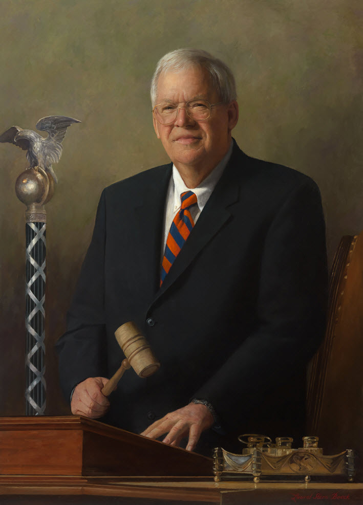 Former U.S. Representative and Speaker of the House Dennis Hastert (R-IL)